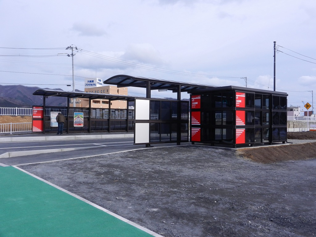 JR East Ofunato Station, after Ofunato Line has been converted to bus rapid transit